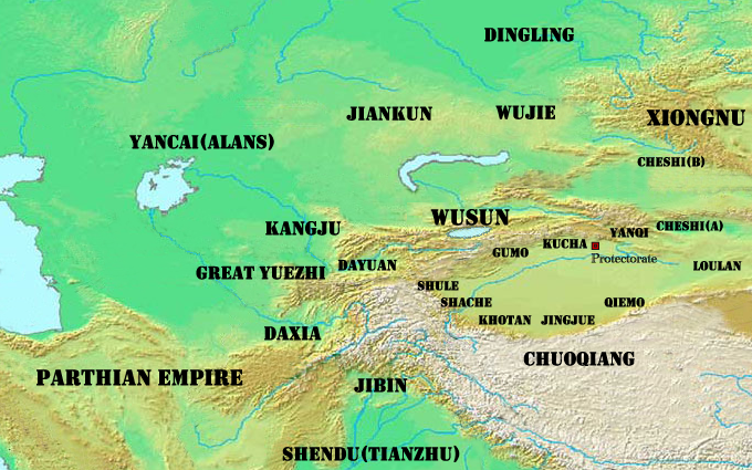 This map shows the western area(Western Regions) nations of the first century at B.C..